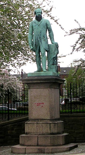 Statue of Sir Peter Fairbairn - Woodhouse Square Mayor of Leeds in 1857 and 1858 - the statue was erected in 1867. Queen Victoria stayed at his house (Woodsley House, later Fairbairn House, in Clarendon Road)when she came to open Leeds Town Hall in September 1858. On that occasion she also knighted Peter Fairbairn